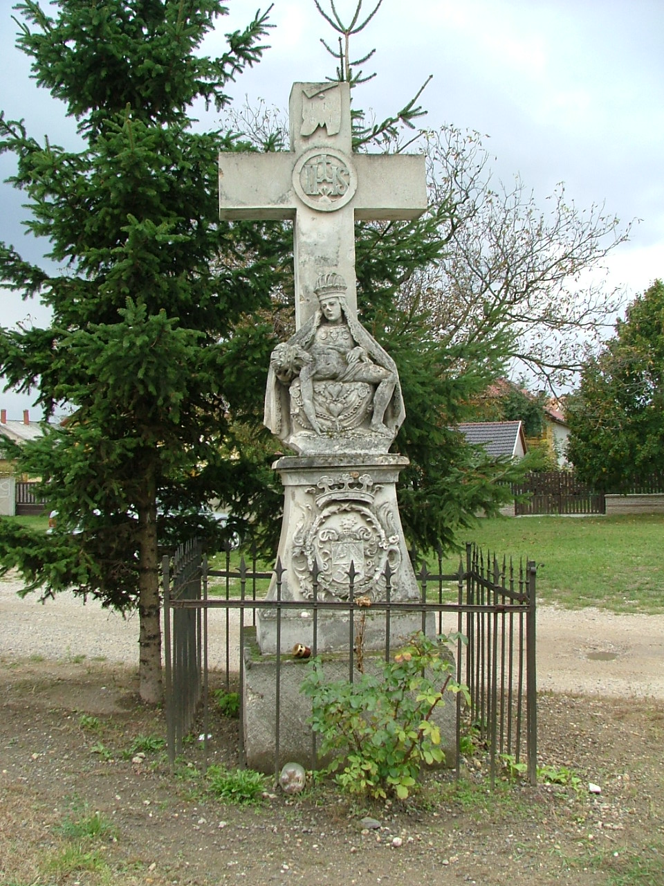 Pietà in Sarród This is a photo of a monument in Hungary, Identifier: 4698